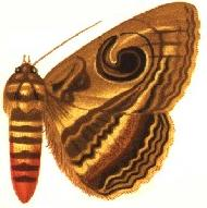 PLATE CCVIII.